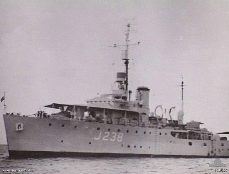 Australian Bathurst class corvette HMAS GYMPIE at anchor in Kupang harbour.